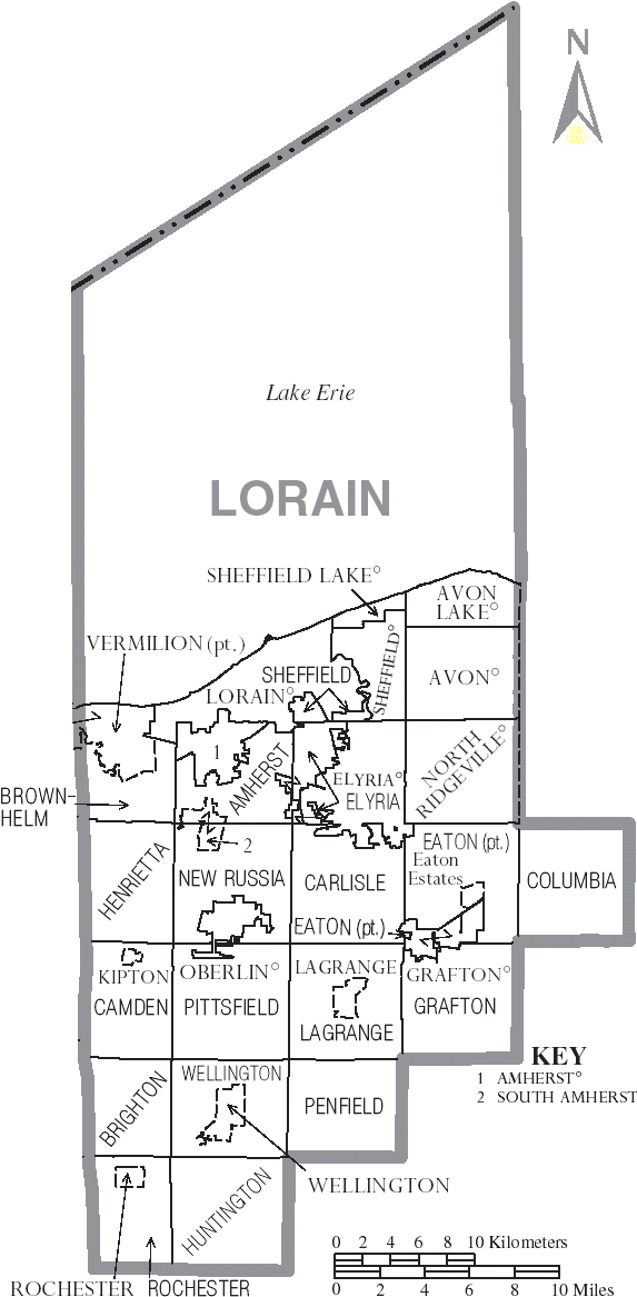 Map of Lorain County, Ohio, United States with township and municipal boundaries